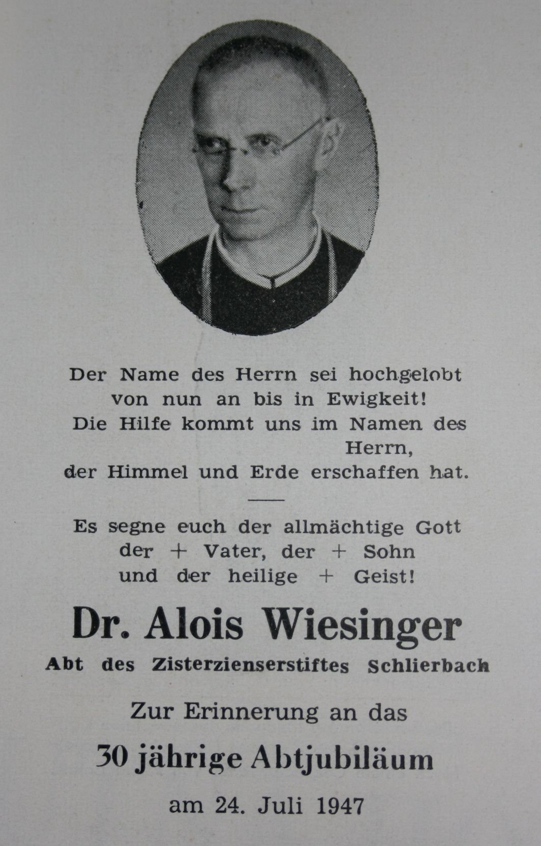 Alois Wiesinger was abbot of Schlierbach Abbey, a Cistercian monastery in Upper Austria. See German Wiki article on him.